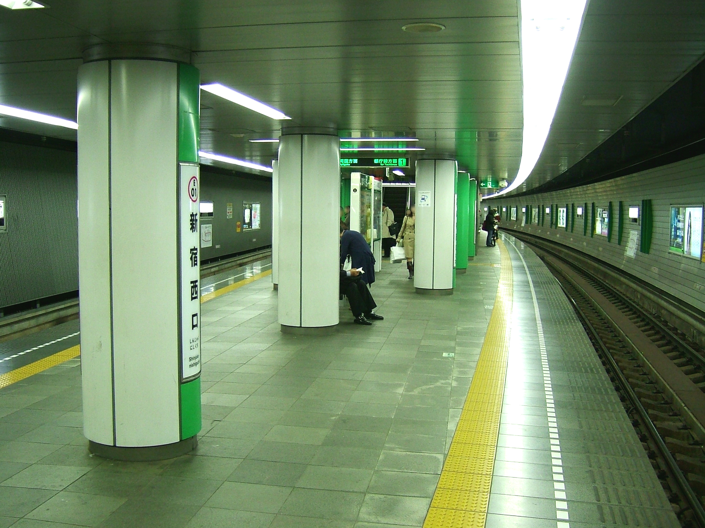 The platform at Shinjuku-Nishiguchi Station on the Toei Ōedo Line in Shinjuku city, Tokyo, Japan